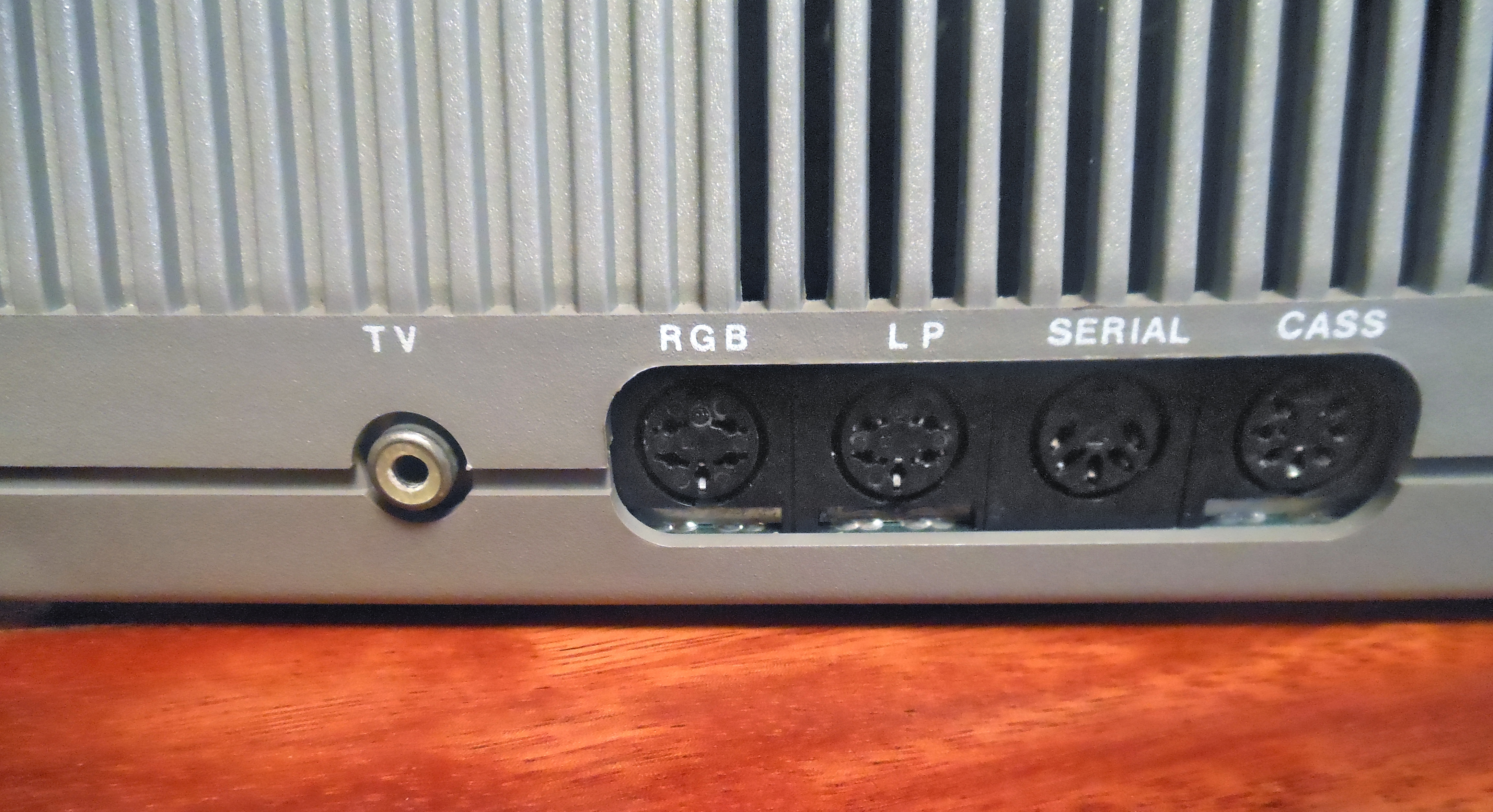 Camputers Lynx - Rear - Part 1